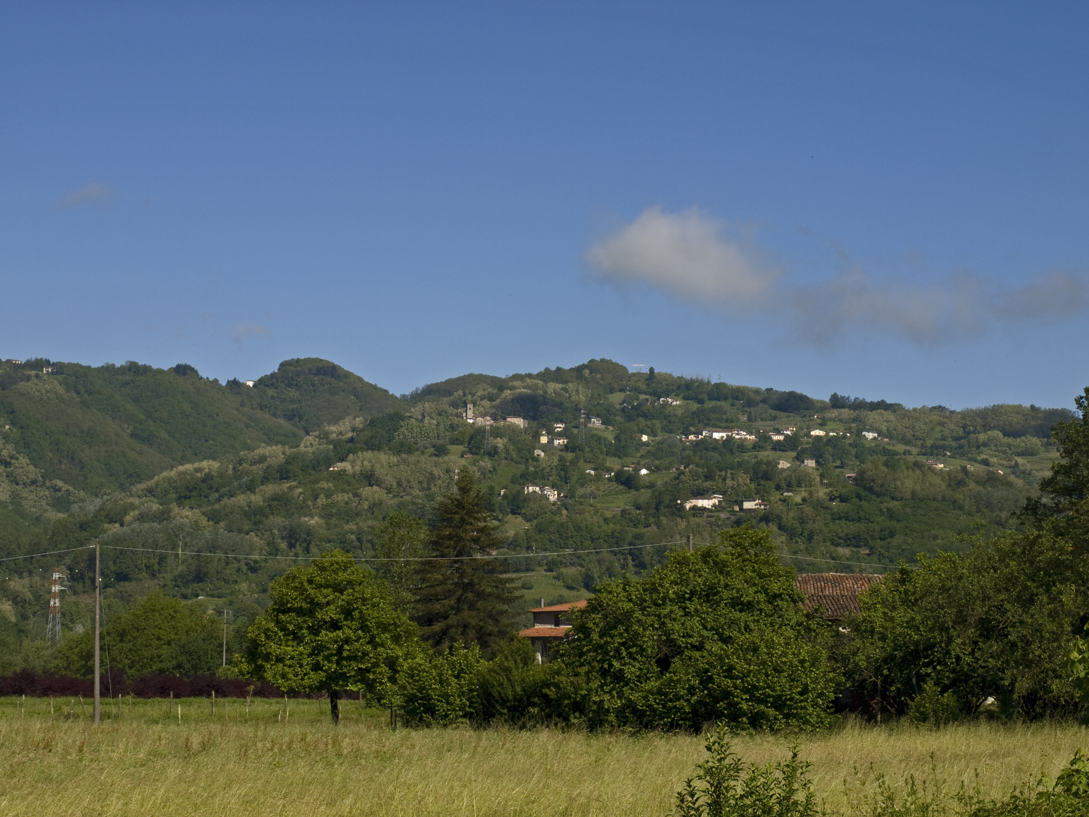 Panorama of the villages of Cascio (left top, with a church), Ca'Matteo, and Ca'Serafino, in the municipality of Molazzana, from the Barga-Gallicano railway station